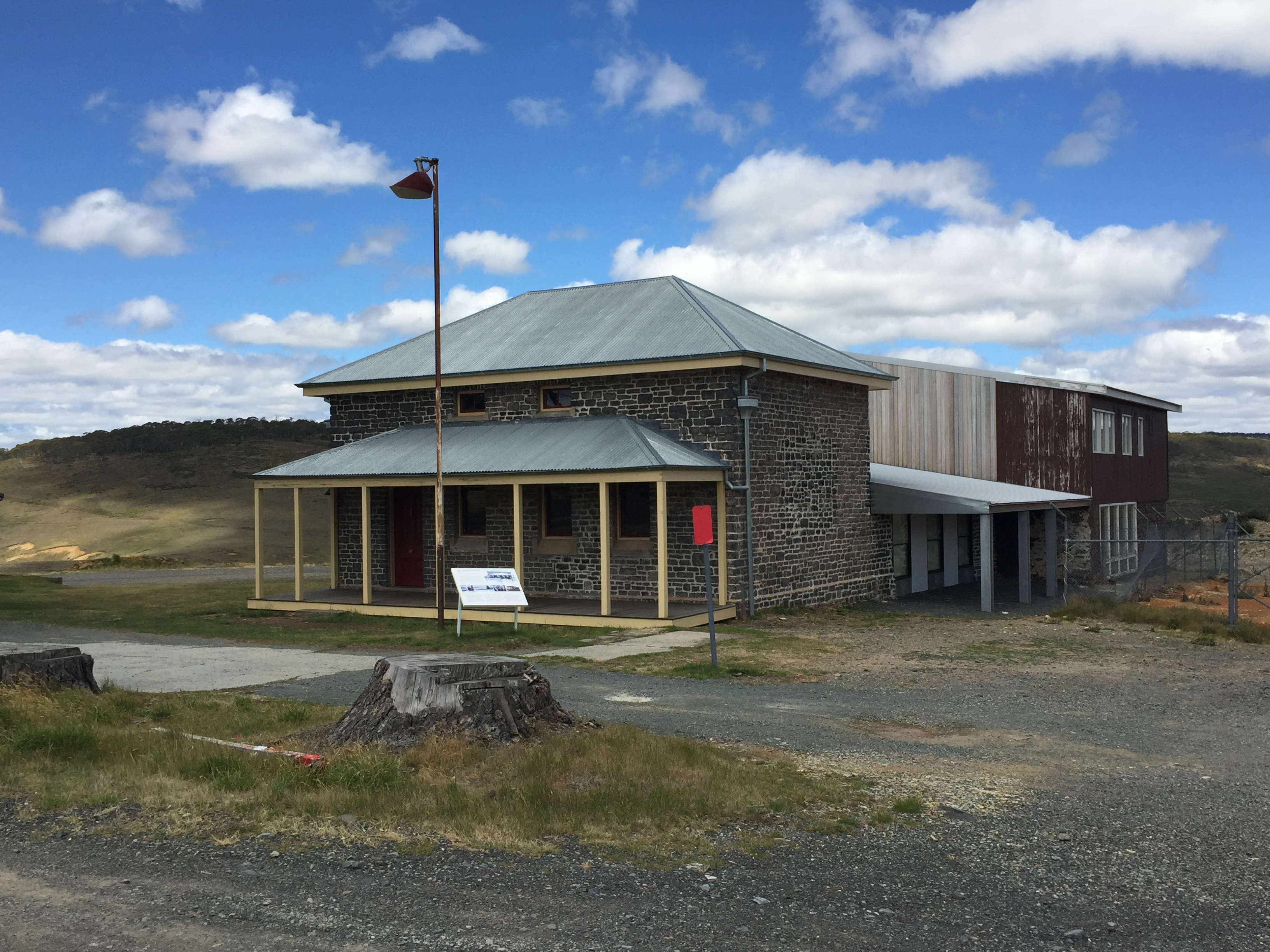 The former court house at Kiandra, New South Wales